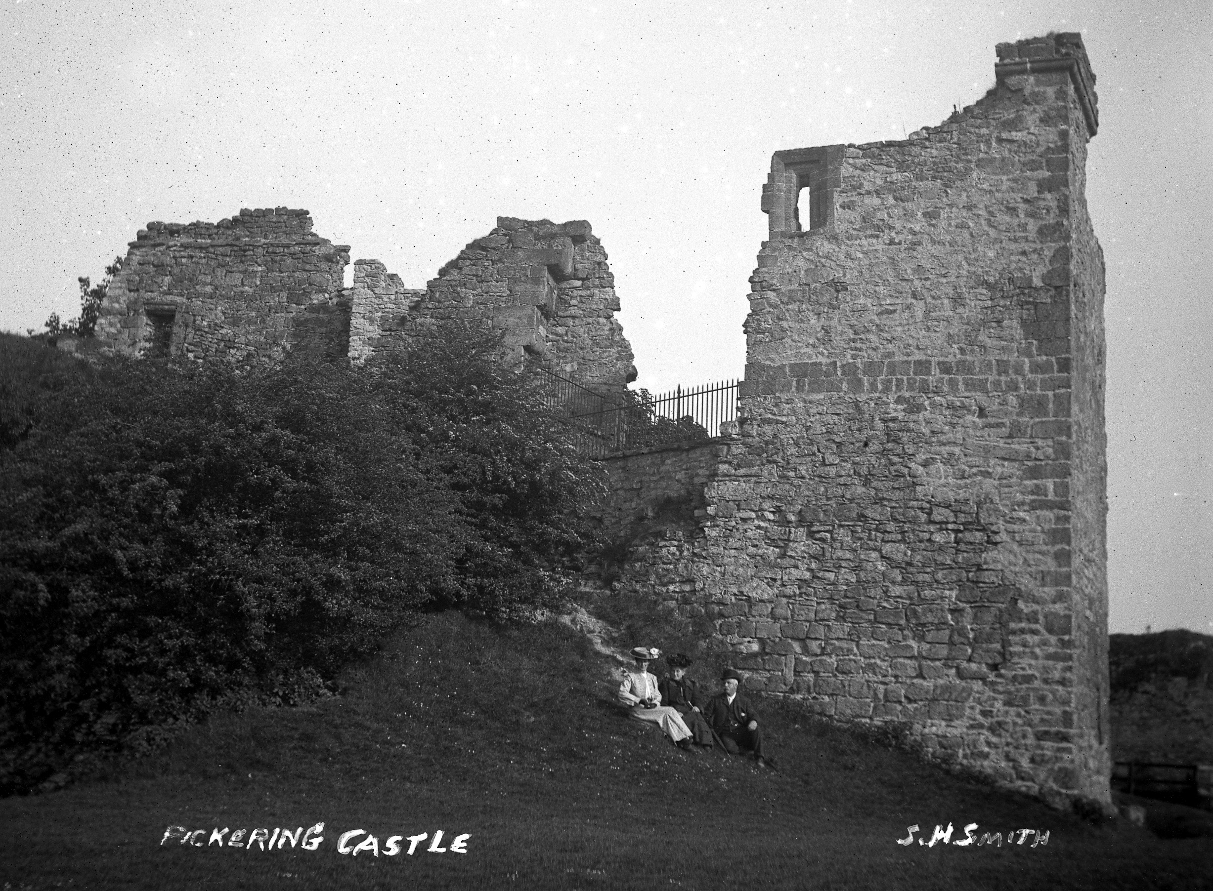 The man is wearing a dark suit and hat, and the two ladies wear long, tailored skirts and jackets with hats; one is dark-coloured, the other light.